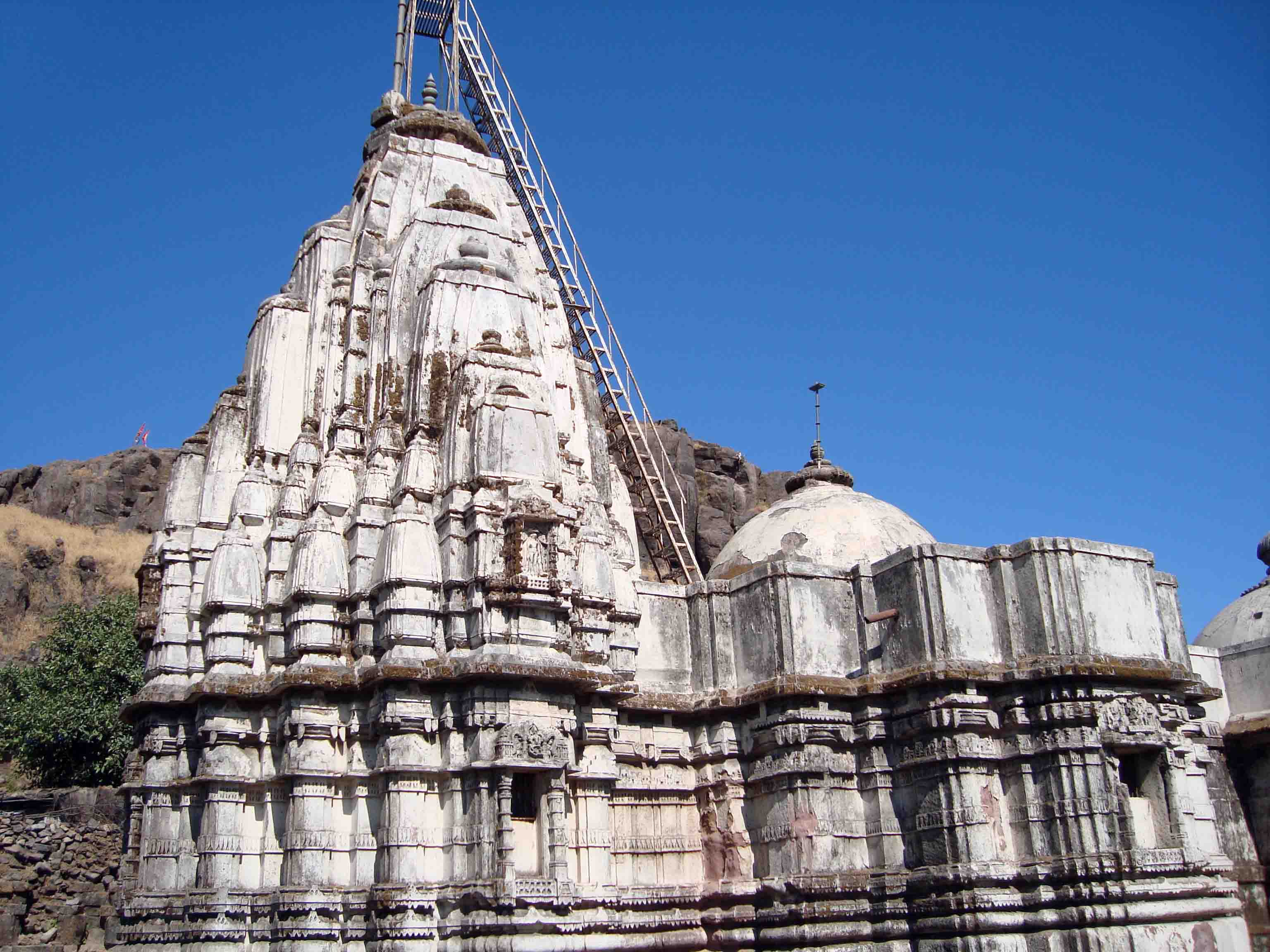 Ruined Hindu temples & Jain temples on the top of Pavagad hills